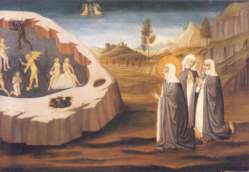 St Catherine intercedes for the soul of sister Palmerina // Museo Amedeo Lia, La Spezia